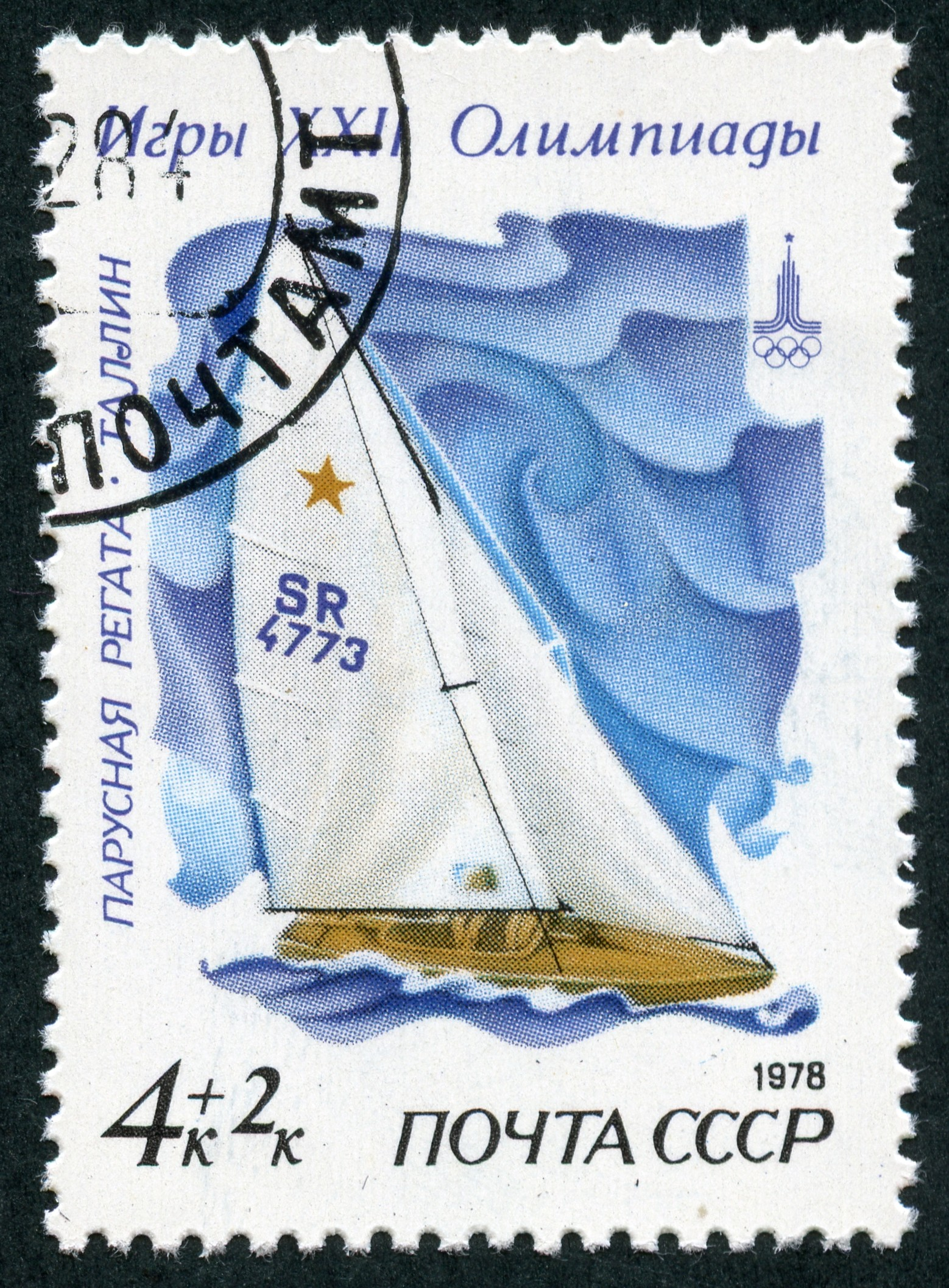 A USSR stamp